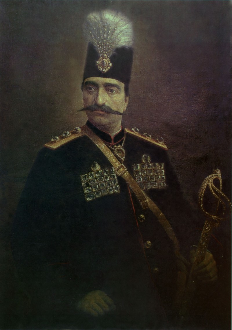 Naseeruddin Shah portrait